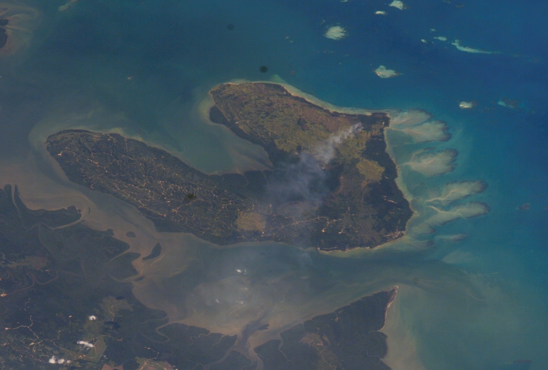 Jambongan Island (cropped from a bigger photo)